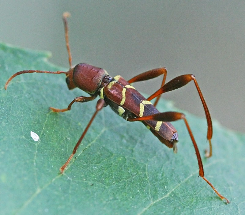 Neoclytus acuminatus adult on the leaf of an Ash tree